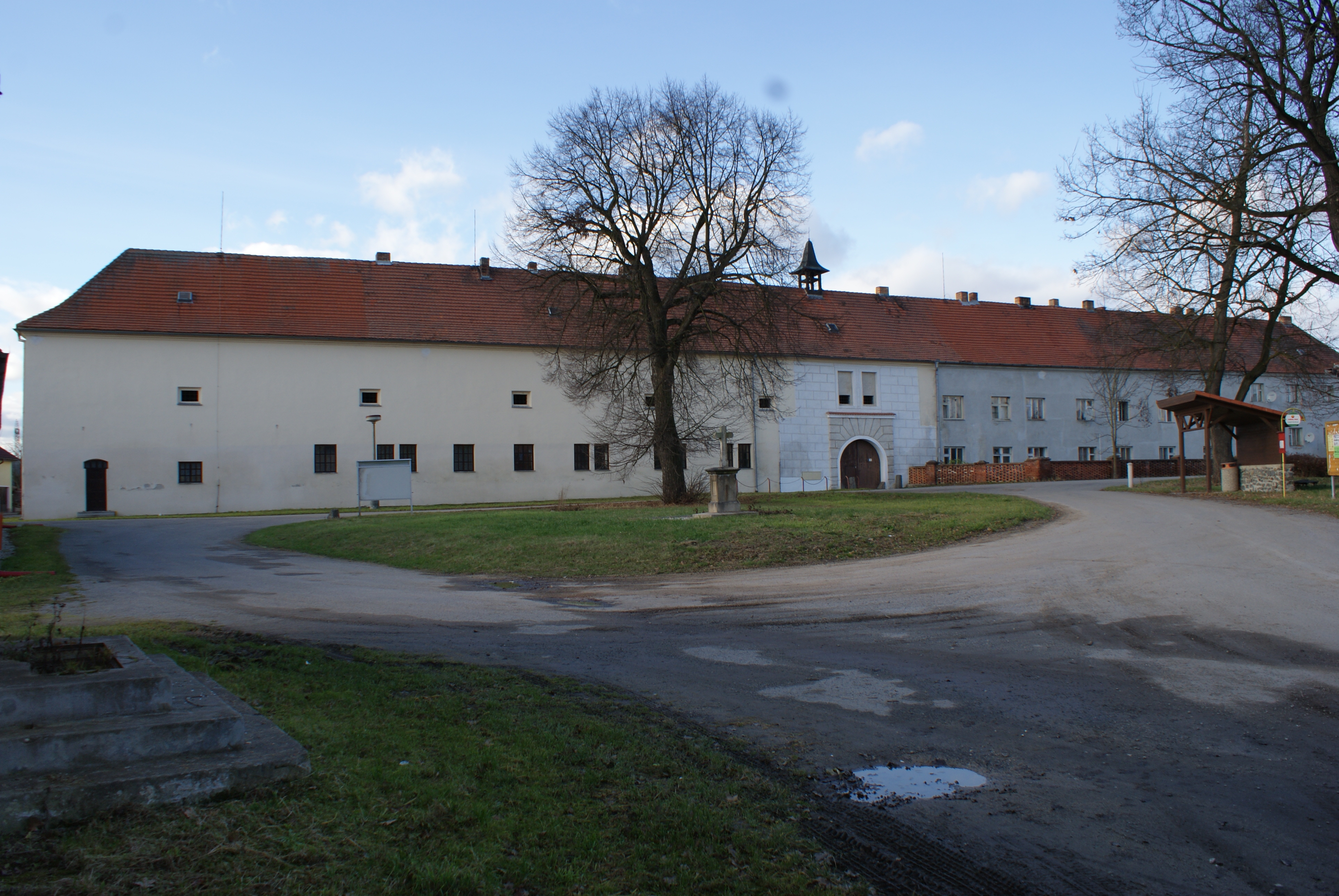 A vassal manor in Milenovice, part of Protivín, CZE